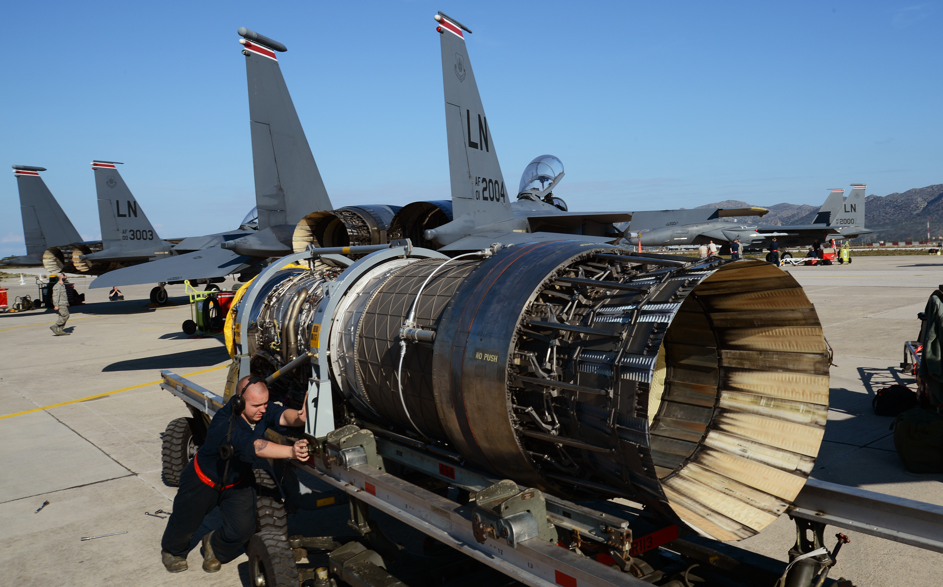 U.S. Air Force Senior Airman Christopher Strader, a maintainer with the 494th Expeditionary Fighter Squadron, prepares an engine for replacement into an F-15E Strike Eagle aircraft at Souda Air Base, Greece, during a flying training deployment with the Hellenic Air Force Feb. 27, 2014.